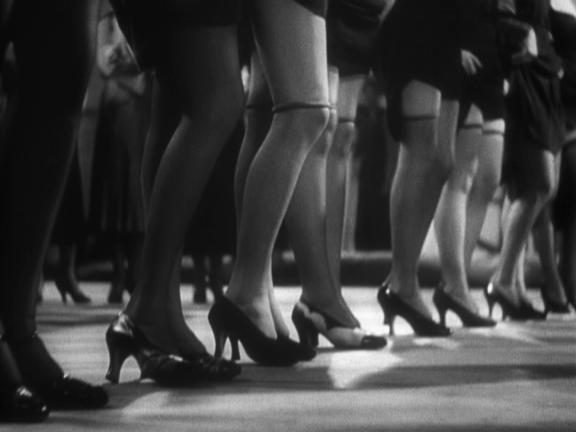 Frame from public domain trailer for 1933 Warner Bros. film 42nd Street showing dancer candidates' legs during their audition